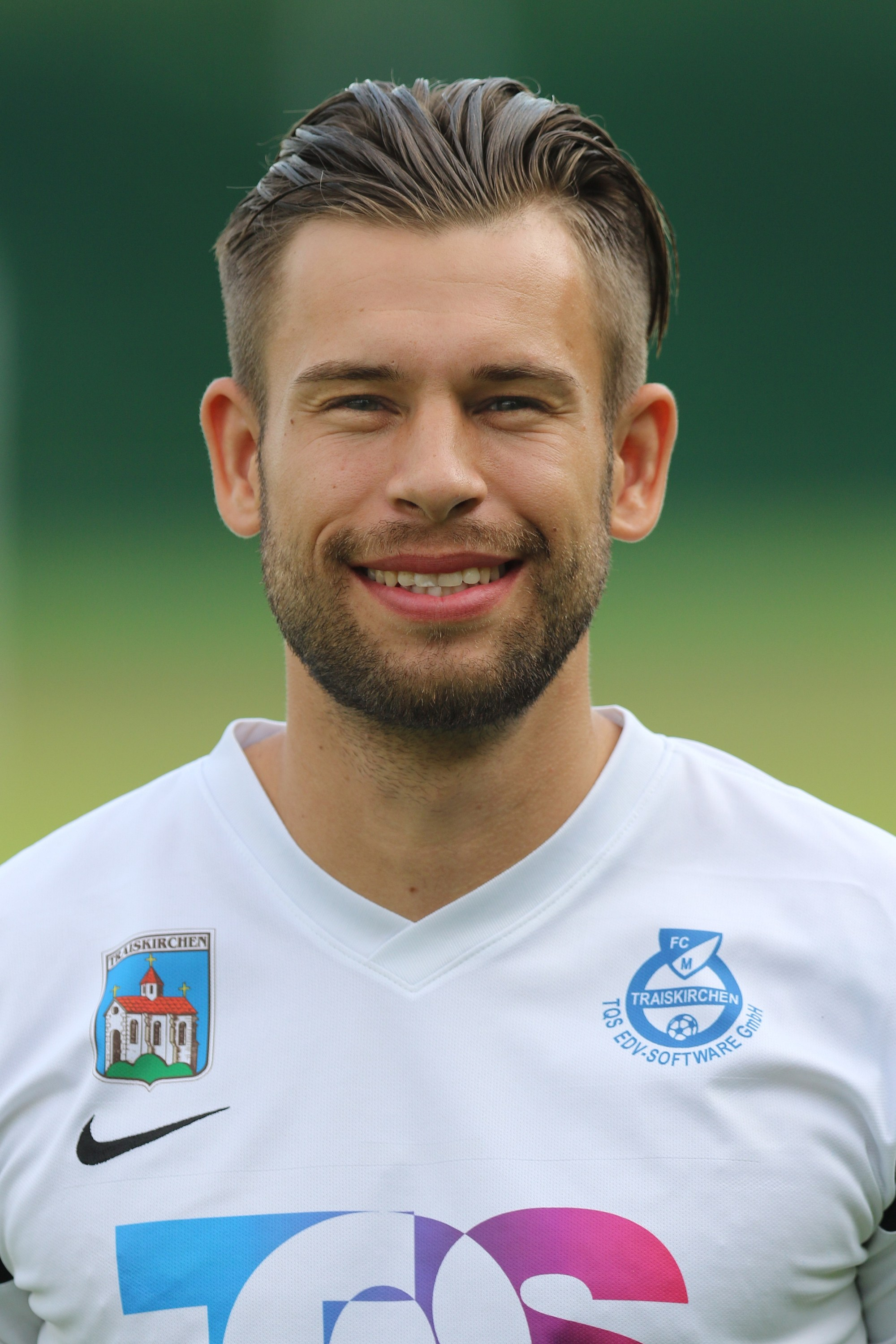 FCM Traiskirchen squad for the 2016-17 season. – The photo shows Stefan Lerner.